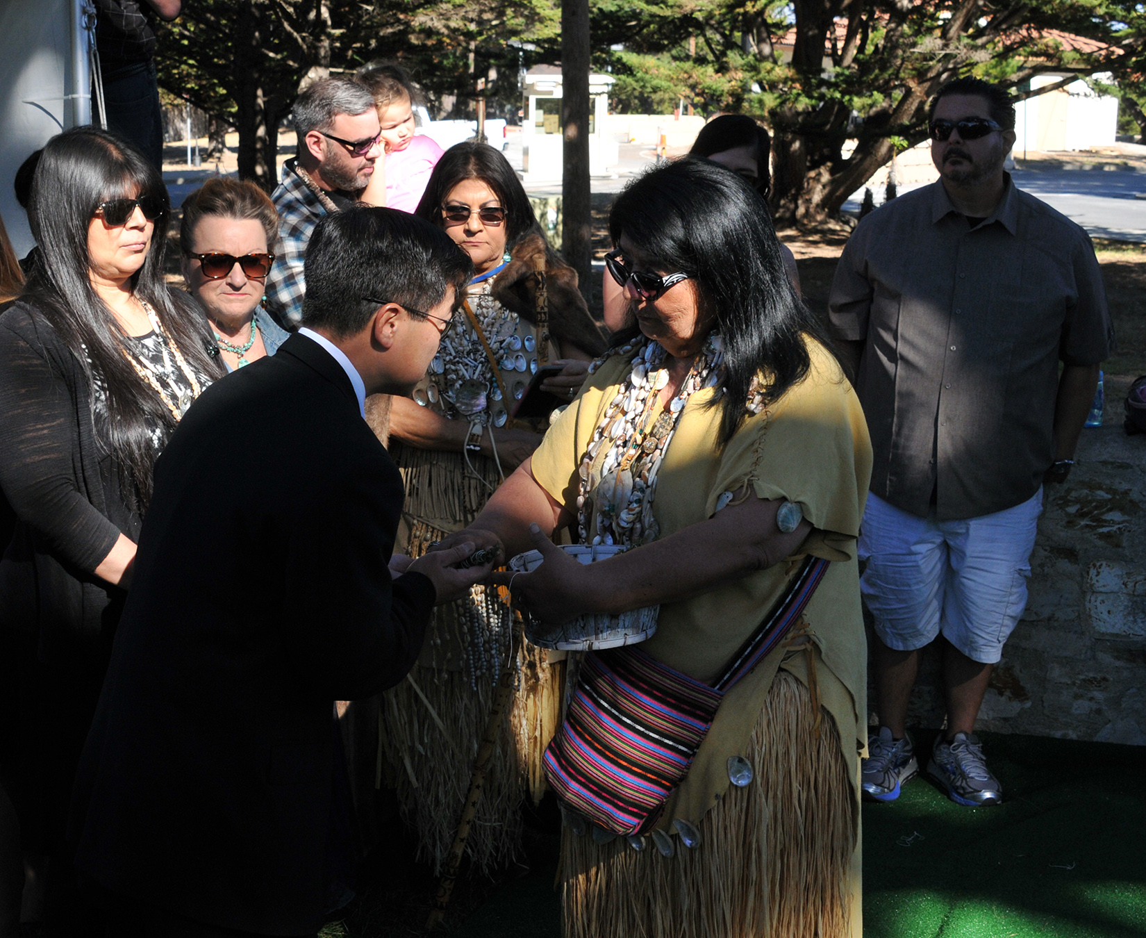 In a first for Native Americans and the U.S. Army, the Presidio of Monterey hosted sovereign tribal nations in a repatriation and reburial ceremony of Native American remains in the Presidio of Monterey cemetery on Oct. 22. The remains of 17 Native Americans and over 300 funerary objects discovered between 1910-1985 were laid to rest, representing the culmination of two years of coordination between the U.S. Army, five federally-recognized tribal governments, and one state-recognized tribe.